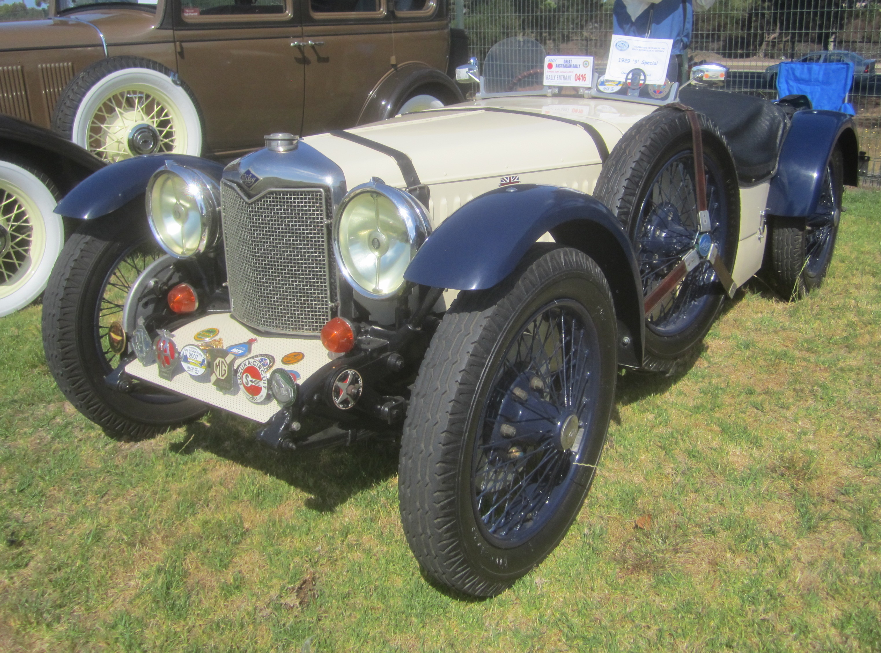 The Riley Nine was built with many different bodies, and went through many changes from 1926-38. Originally only available in 1926 as a fabric body saloon or a 4 seat Tourer, this Speed model was built from 1927-31, it got a lower chassis, cycle wings and pointed tail. It got a tuned 50 bhp version of the 1087cc engine.